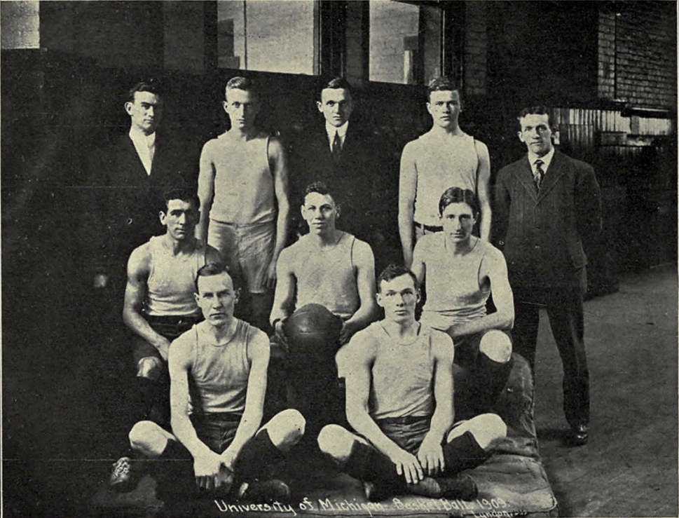 Portrait of the University of Michigan varsity "basket ball" team. It consisted of G.D. Corneal (coach), Ralph Sayles (mgr.), J.P. Wilson (captain), H.H. Farquhar, C.F. Raiss, C.P. Lathers, G. Ely, A.R. Peek, G. Hayes, F.C. West.